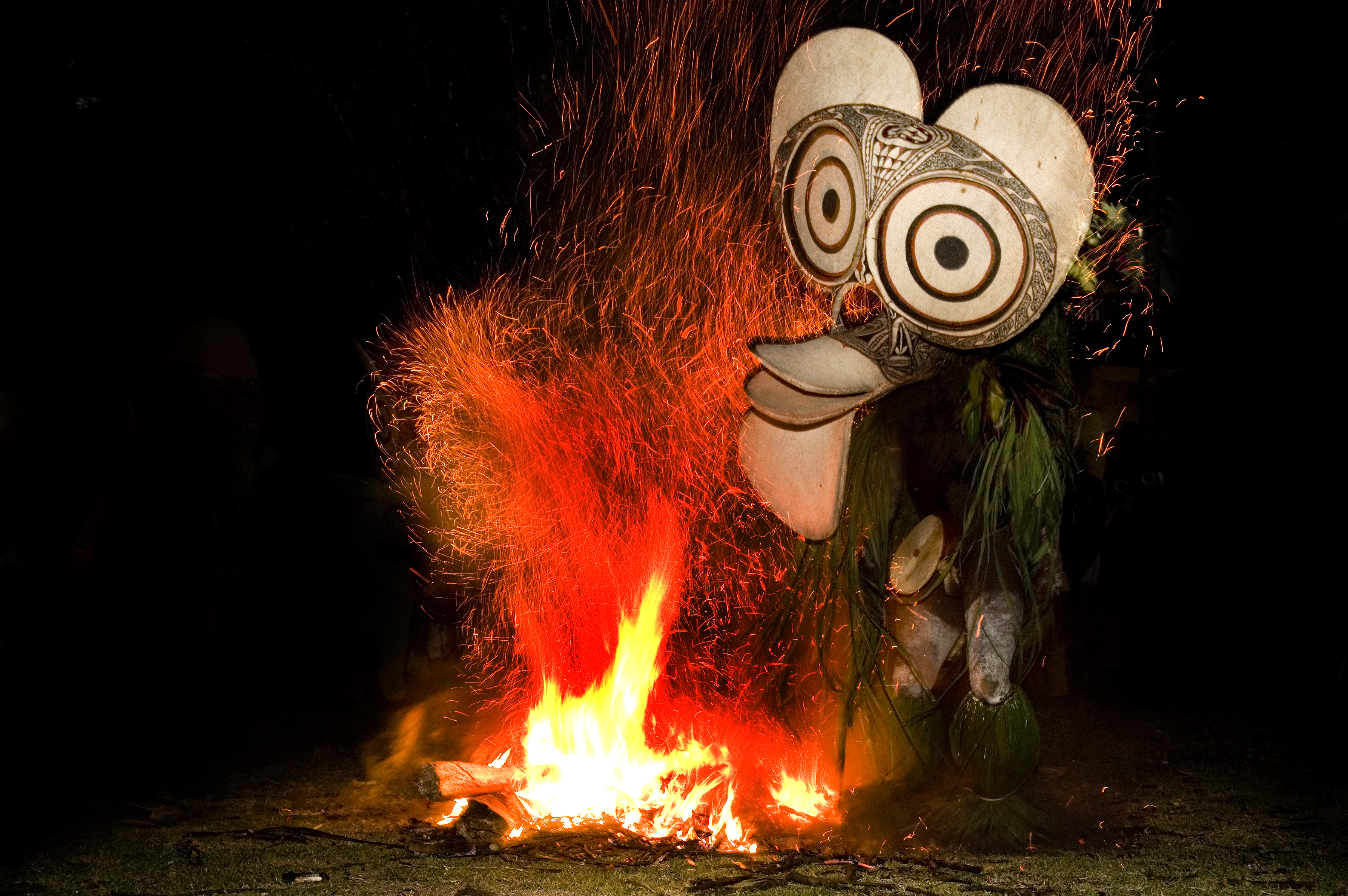 Firedancers of the Baining people on the Gazelle Peninsula of New Britain in Papua New Guinea (2008). They live in the Baining Mountains and may have inhabited this area for thousands of years. The Baining are somewhat of an of an oddity amongst Melanesian cultures because they create art forms that have a very ephemeral existence. The dance mask in the picture is laboriously made from bark cloth, bamboo and leaves and used just once for the firedance ceremony before being thrown away or destroyed. The origin of these firedance ceremonies was to celebrate the birth of new children, the commencement of harvests, and also a way of remembering the dead. The Baining firedance is also a right of passage for initiating young men into adulthood. It's a totally male event and traditionally the Baining women and children do not take part in it or even watch the firedance.